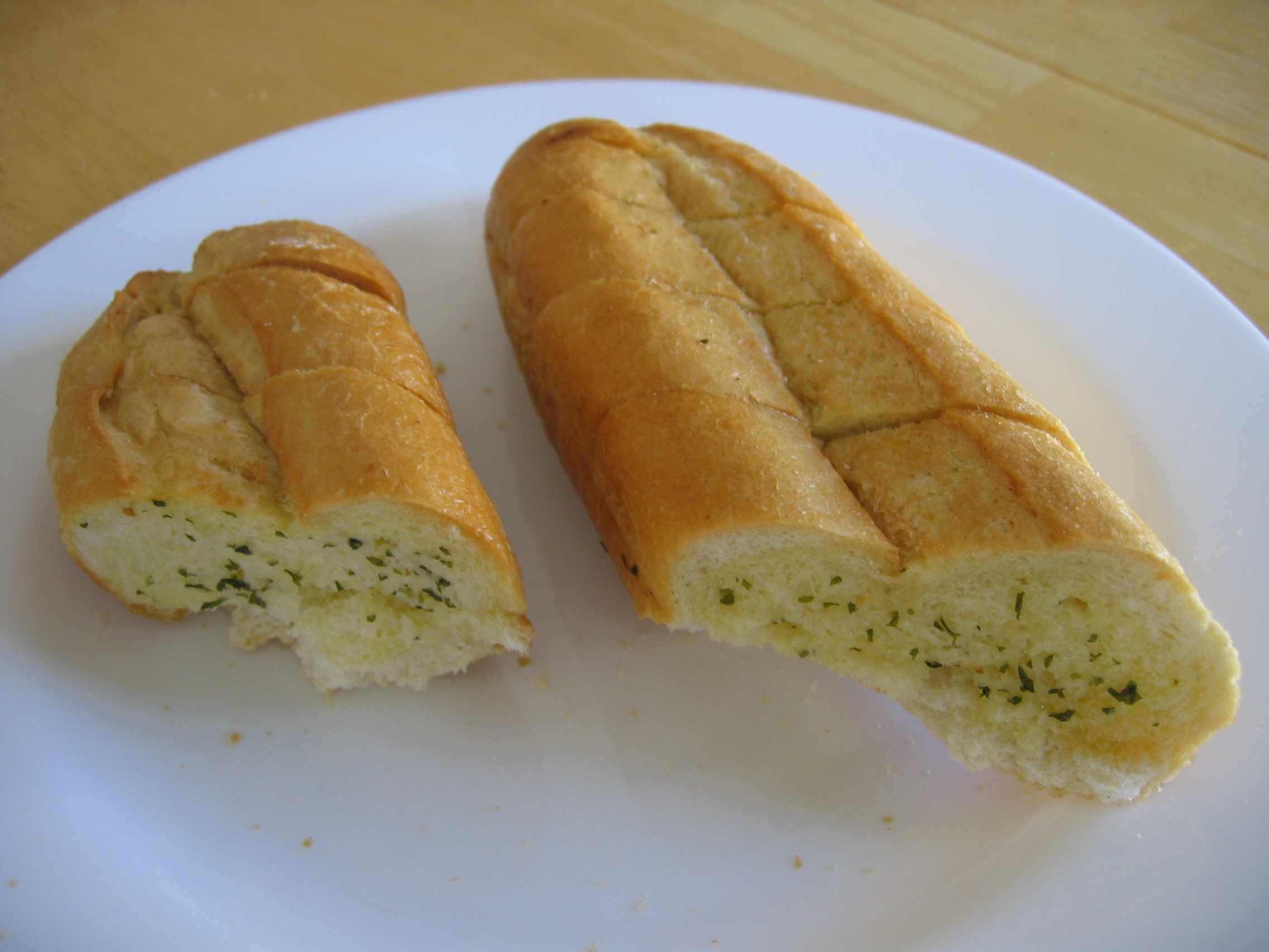 Garlic bread, dinner plate and my kitchen table. It was expired but I ate it anyway.